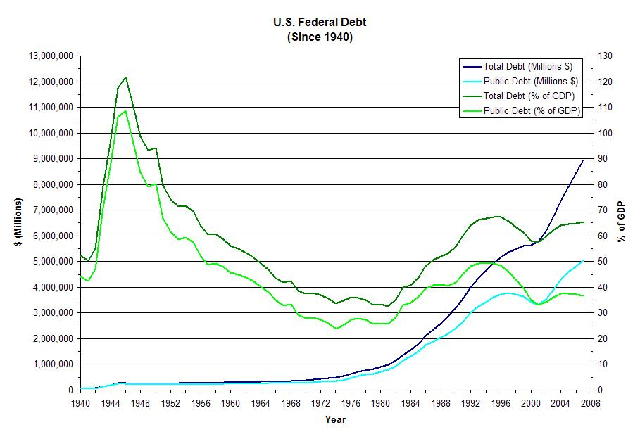 U.S. Federal debt (total and public) from 1940 to 2007 (includes data in dollars ($) and percent (%) of GDP.